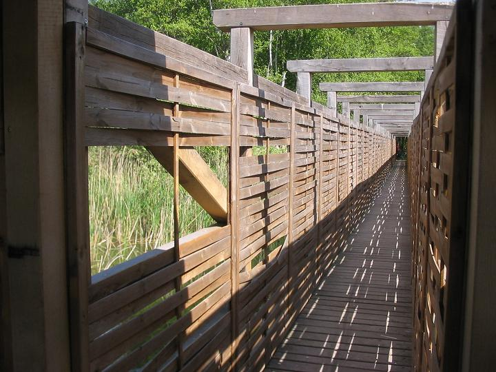 Plank roadway with viewing platform for bird watching in the Riebener See. It is a protected lake in the nature park Nuthe-Nieplitz nearby the village Rieben, part of the town Beelitz in the district Teltow-Fläming, state Brandenburg, Germany.